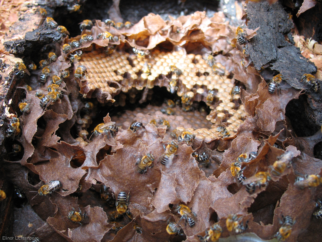 The inside of a Melipona scutellaris (stingless bee) nest, with the involucrum partially removed to show the brood cells